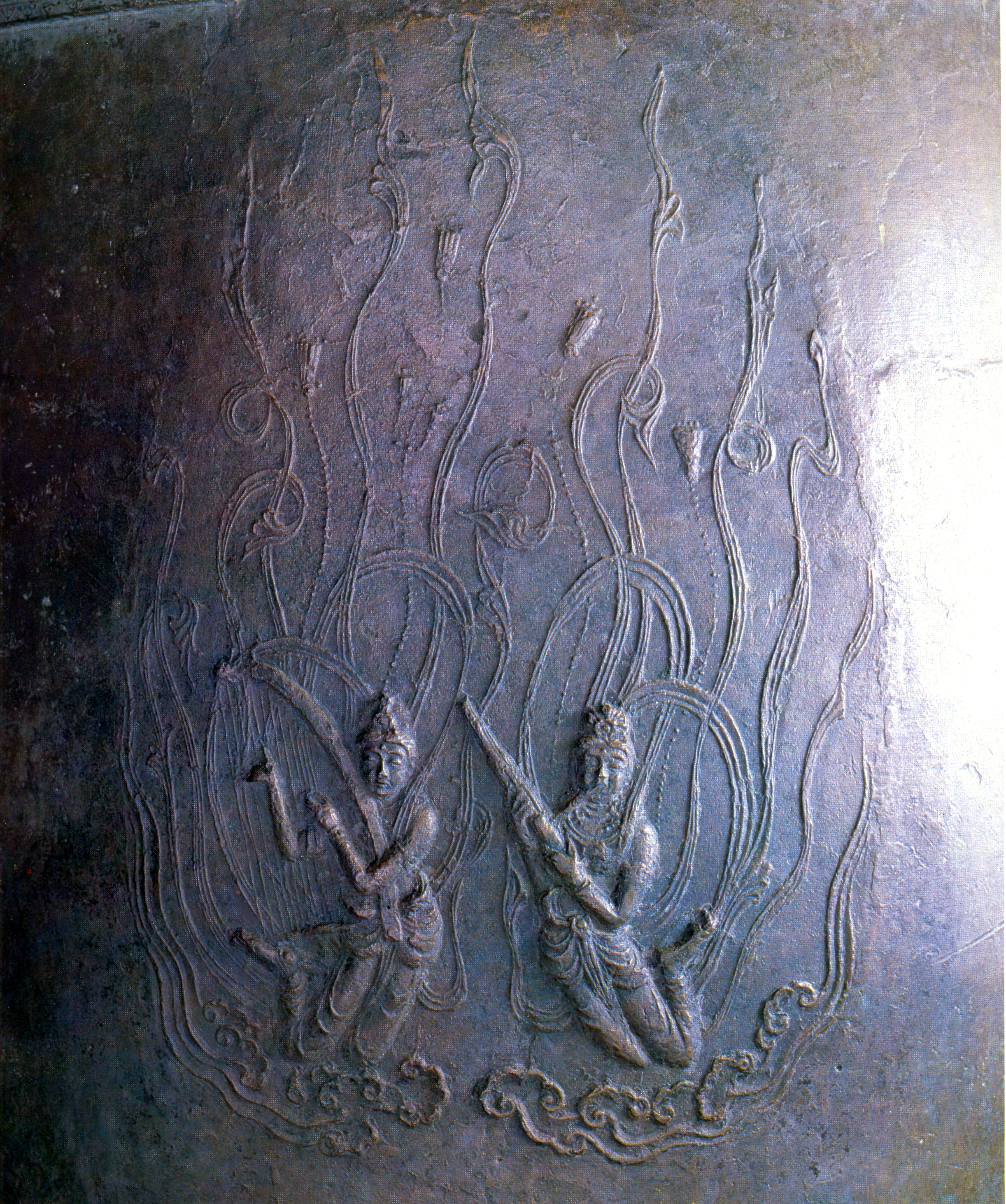 Bronze bell at Sangwonsa temple in Pyeongchang, Korea